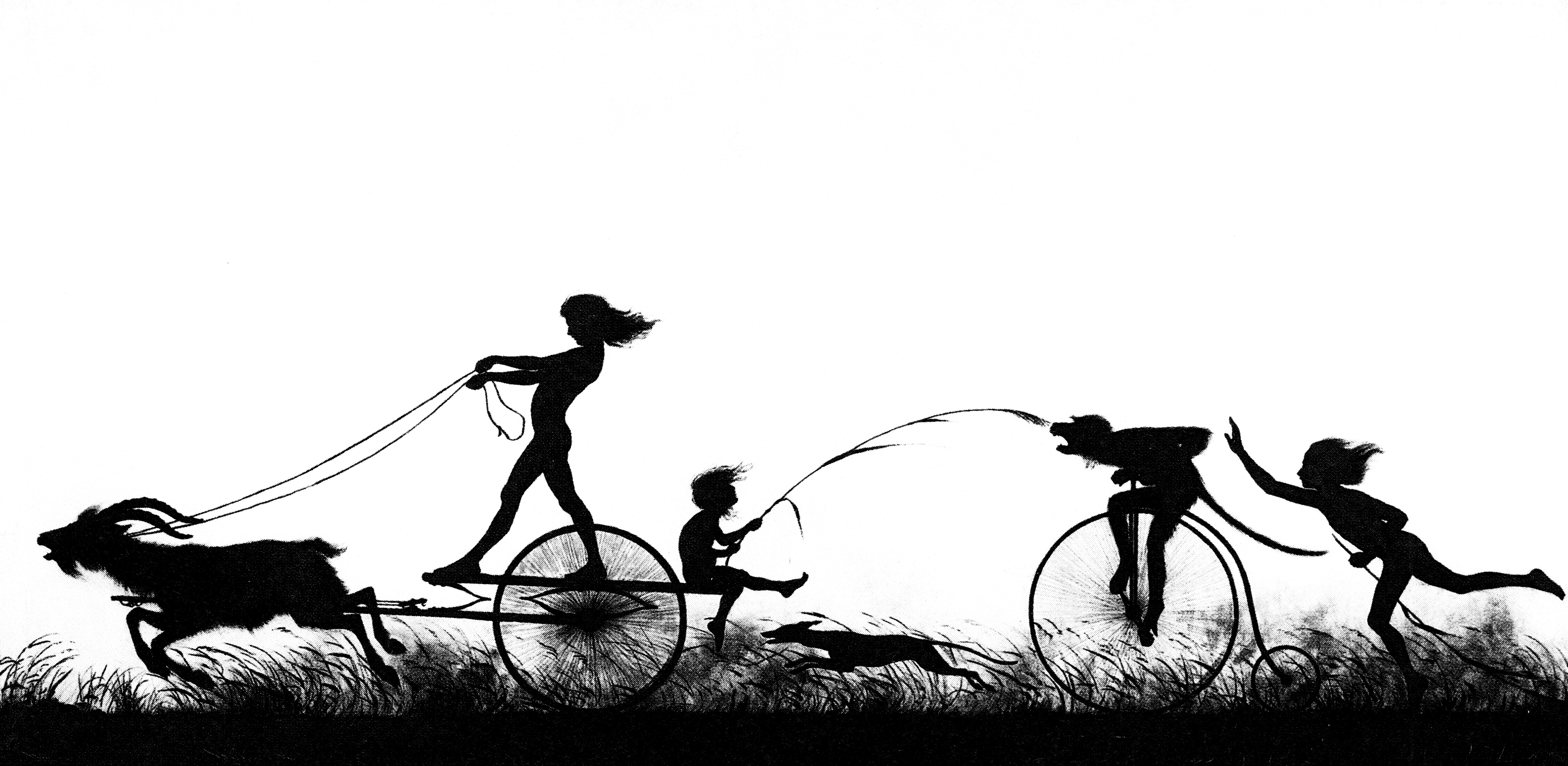 Karl Wilhelm Diefenbach (1892) from: per aspera ad astra